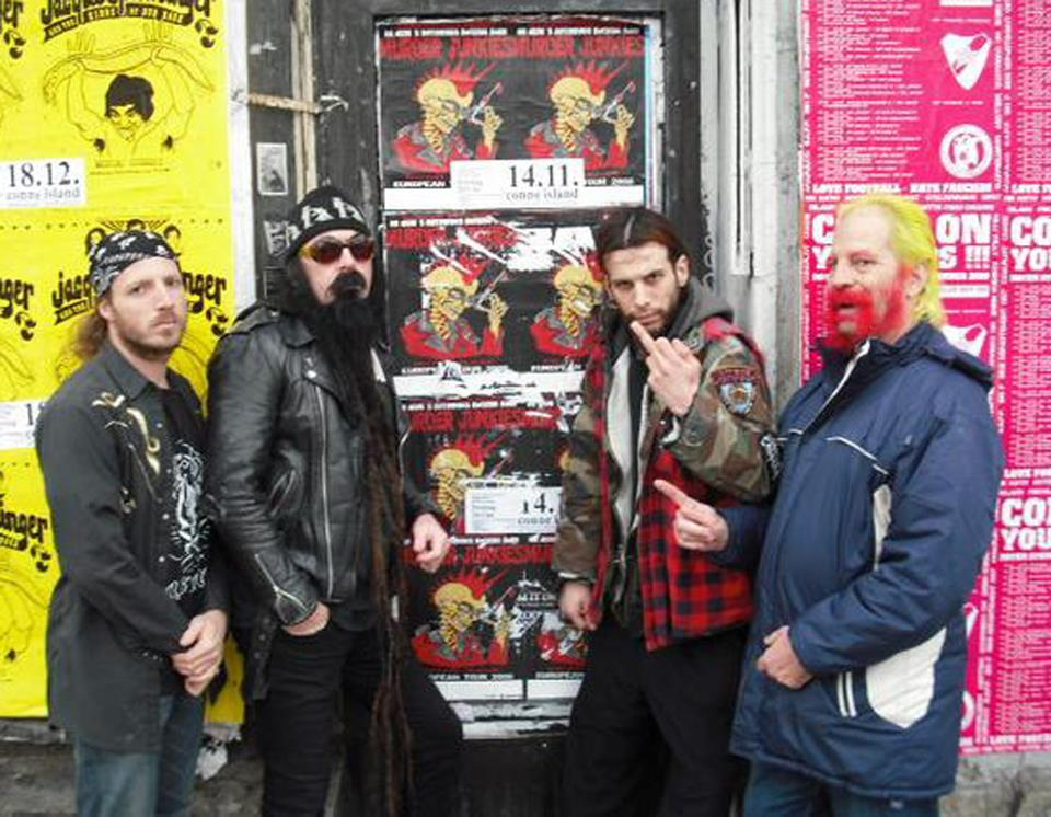 This is the current lineup of the Murder Junkies for the wiki page